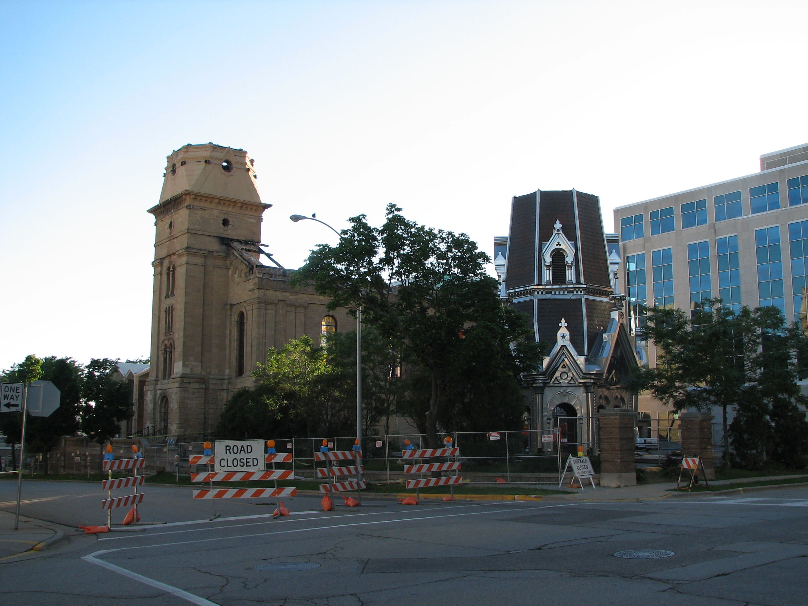 Saint Raphael's Cathedral, Madison, Wisconsin